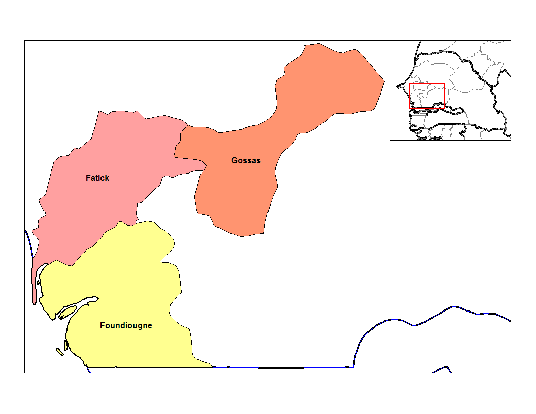 Map of the departments of Fatick region in Senegal. Created by Rarelibra 22:30, 28 December 2006 (UTC) for public domain use, using MapInfo Professional v8.5 and various mapping resources.